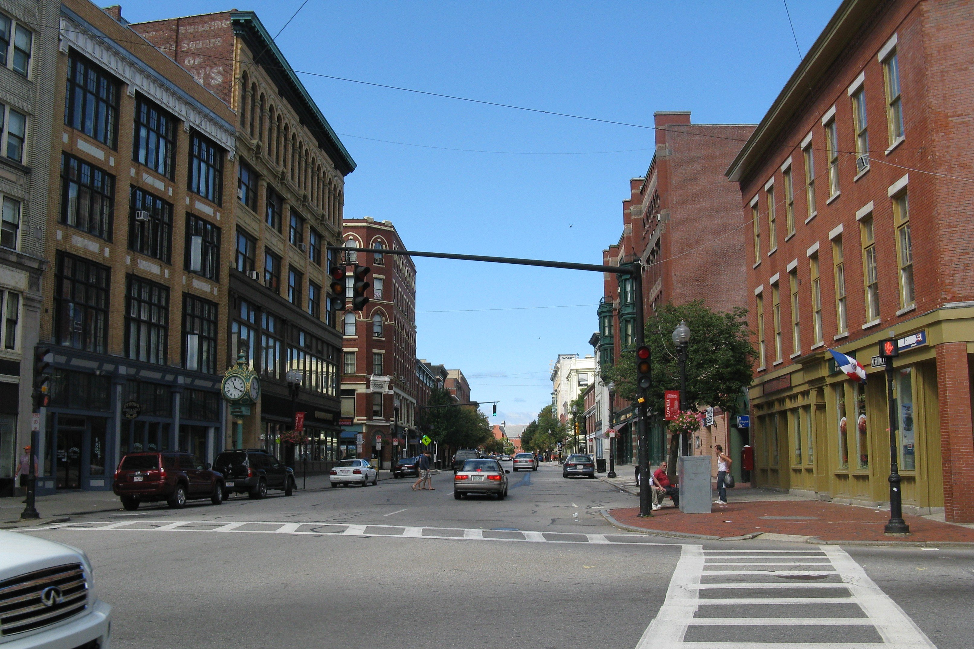 Merrimack Street, Lowell Massachusetts